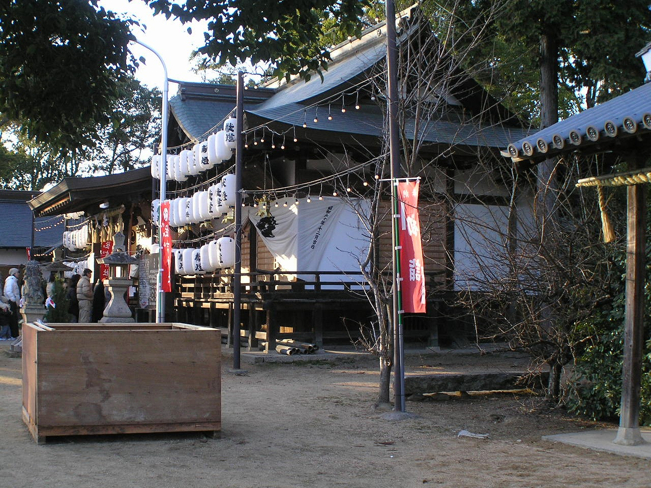 Sumiyoshi-jinja (住吉神社), a Shinto shrine in Nishi-ku, Kobe, Japan.